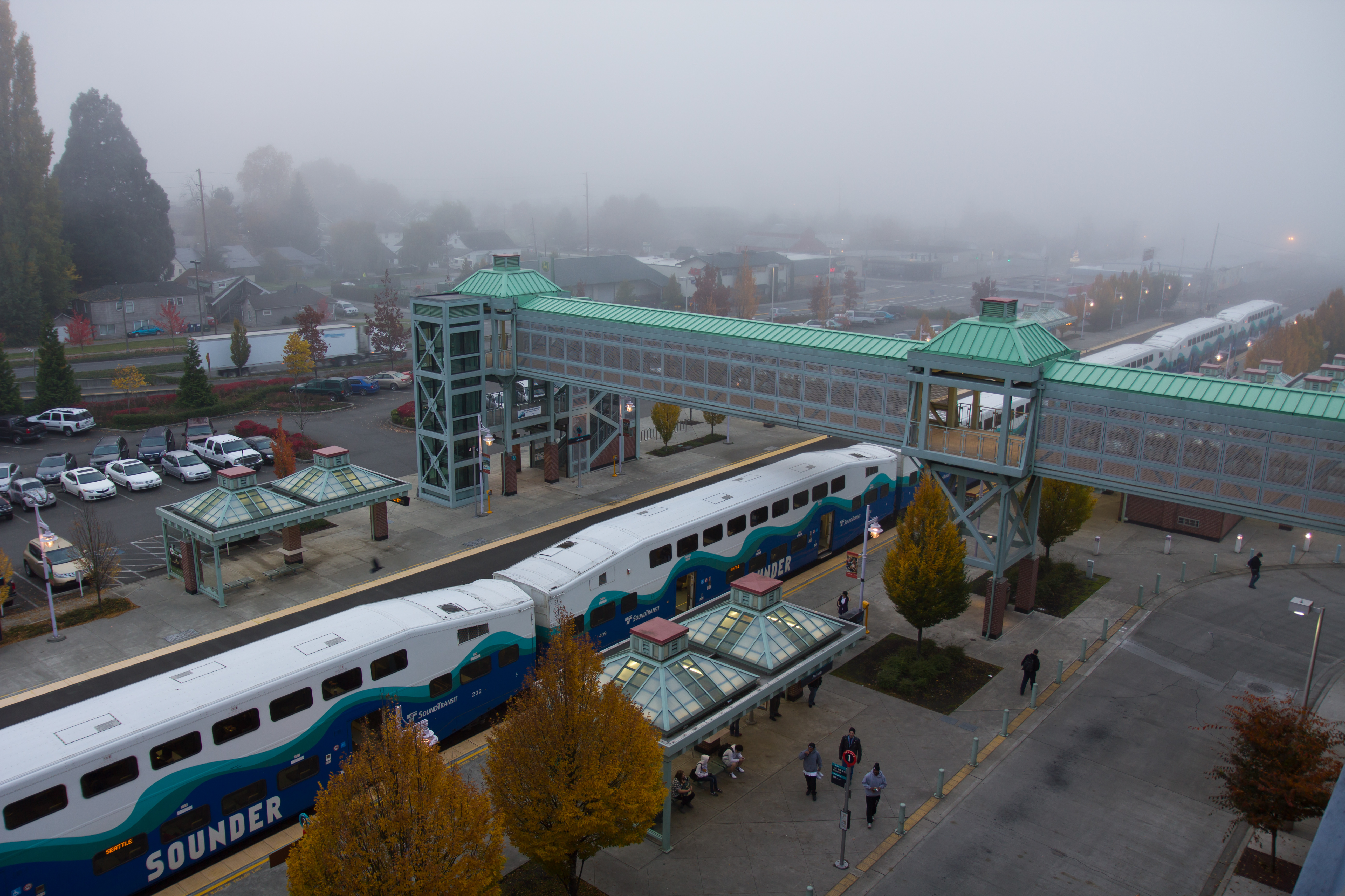 Sound Transit's Sounder commuter rail loads up passengers at Auburn Station while others wait for connecting buses.